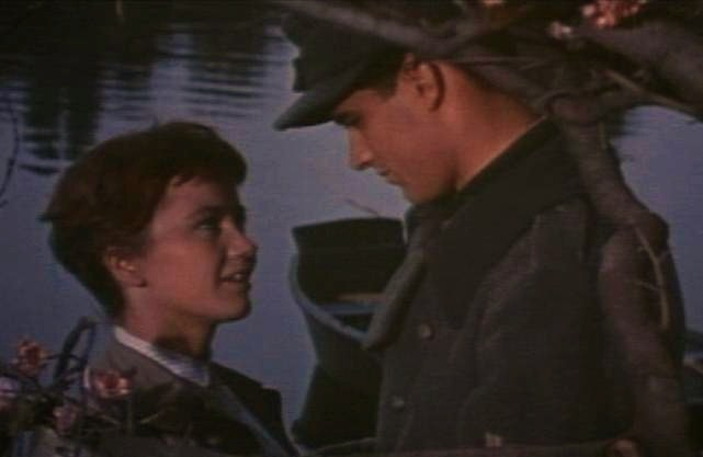 Liselotte Pulver & John Gavin in A Time to Love and a Time to Die - trailer (cropped screenshot)